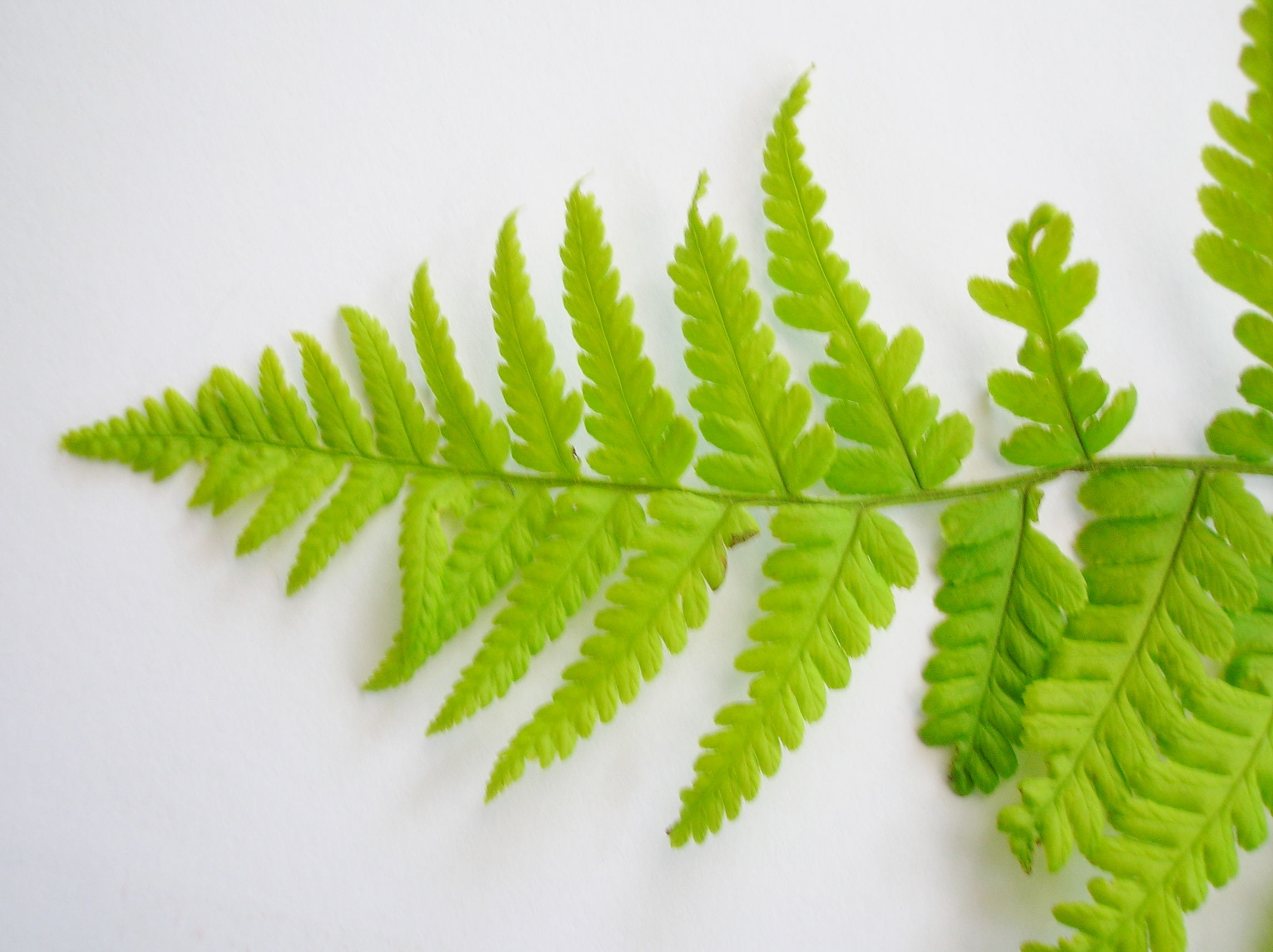 Fern frond showing likely insect damage and resultant developmental assymetry